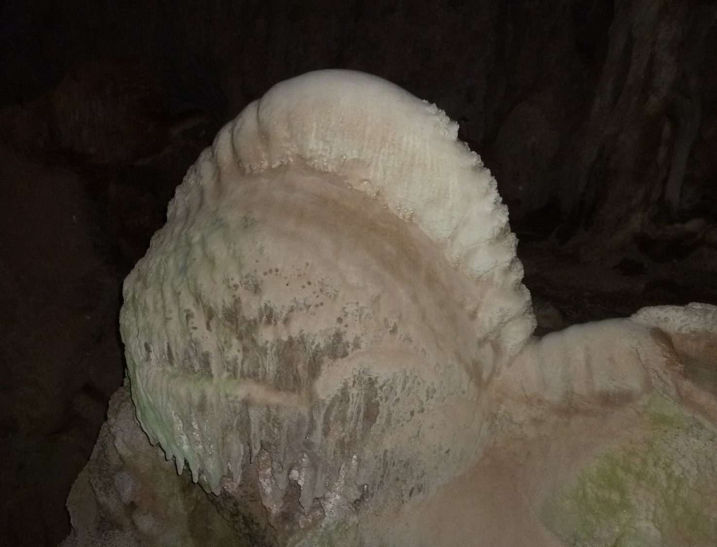 Formation called Crayfish back, in Jenolan caves, Australia. The Nettle Cave hosts "Crayfish backs", stromatolites shaped by cyanobacteria, light and wind. They are estimated to be at least 20,000 years old.